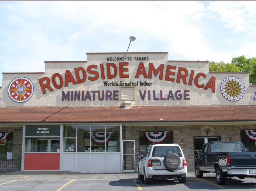 This is a picture from the web site I had developed for Roadside America